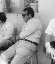 Mafia boss Rosario “Saro” Riccobono